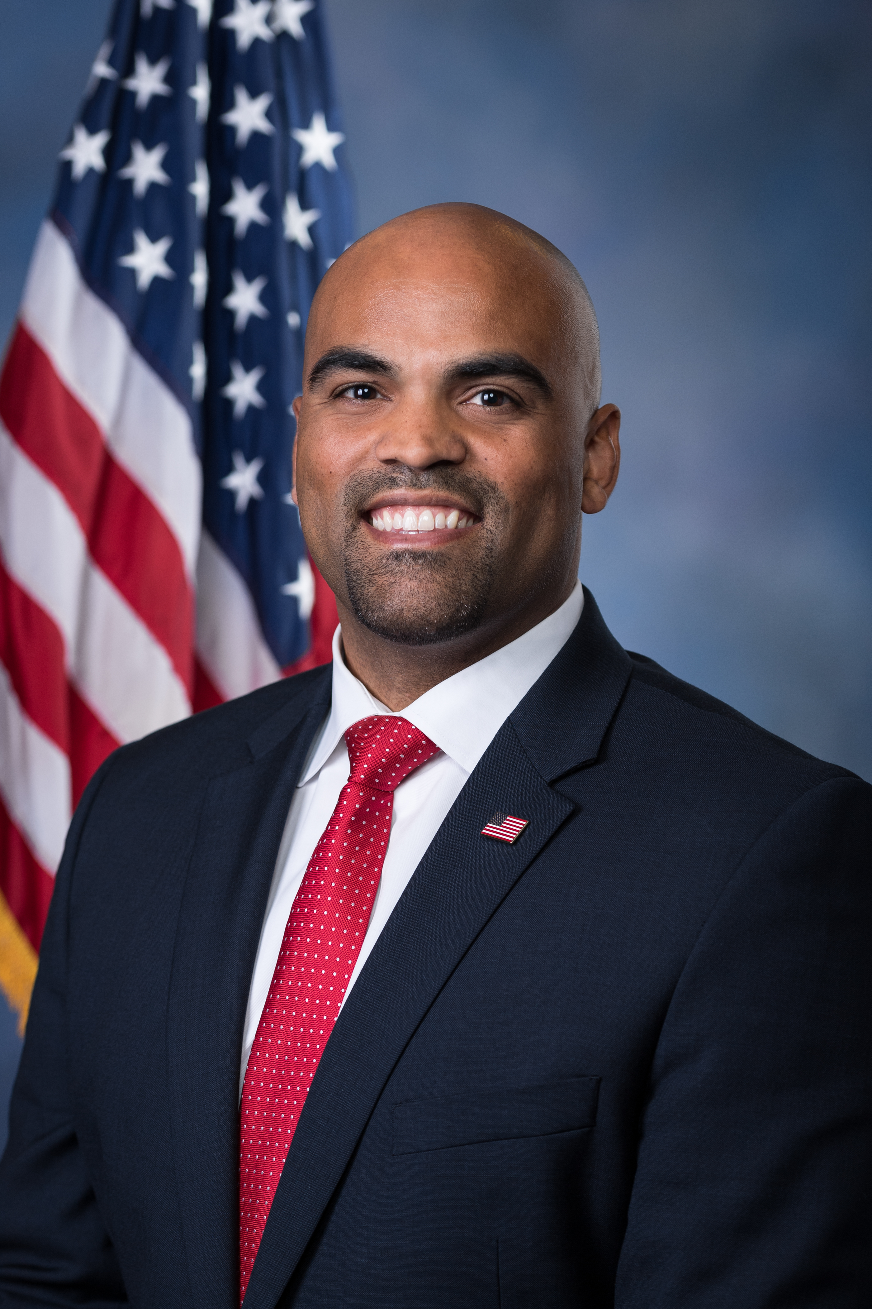 The official headshot of Rep. Colin Allred (D-TX)